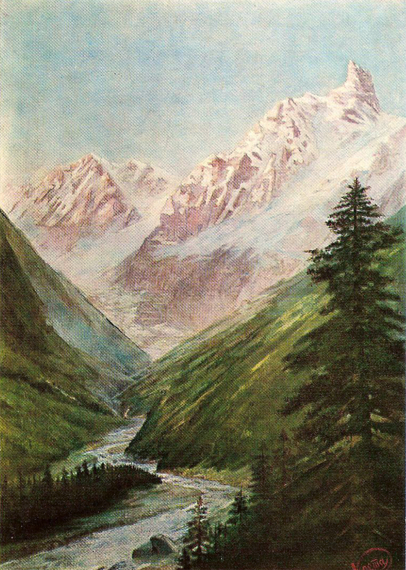 Teberda Canyon (1900), Kosta Khetagurov, North Ossetia Art Museum, Vladikavkaz, Russia